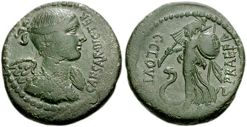 JULIUS CAESAR. 45 BC. Æ Dupondius (27mm, 13.25 gm). C. Clovius, praefect. Mediolanum mint? CAESAR DICTER, draped bust of Victory right C CLOVI PRAEF, Minerva standing left holding trophy over shoulder and shield decorated with Medusa, at her feet, snake left. Crawford 476/1a; CRI 62; RPC I 601; Sydenham 1025. VF, wonderful glossy green patina, minor porosity.